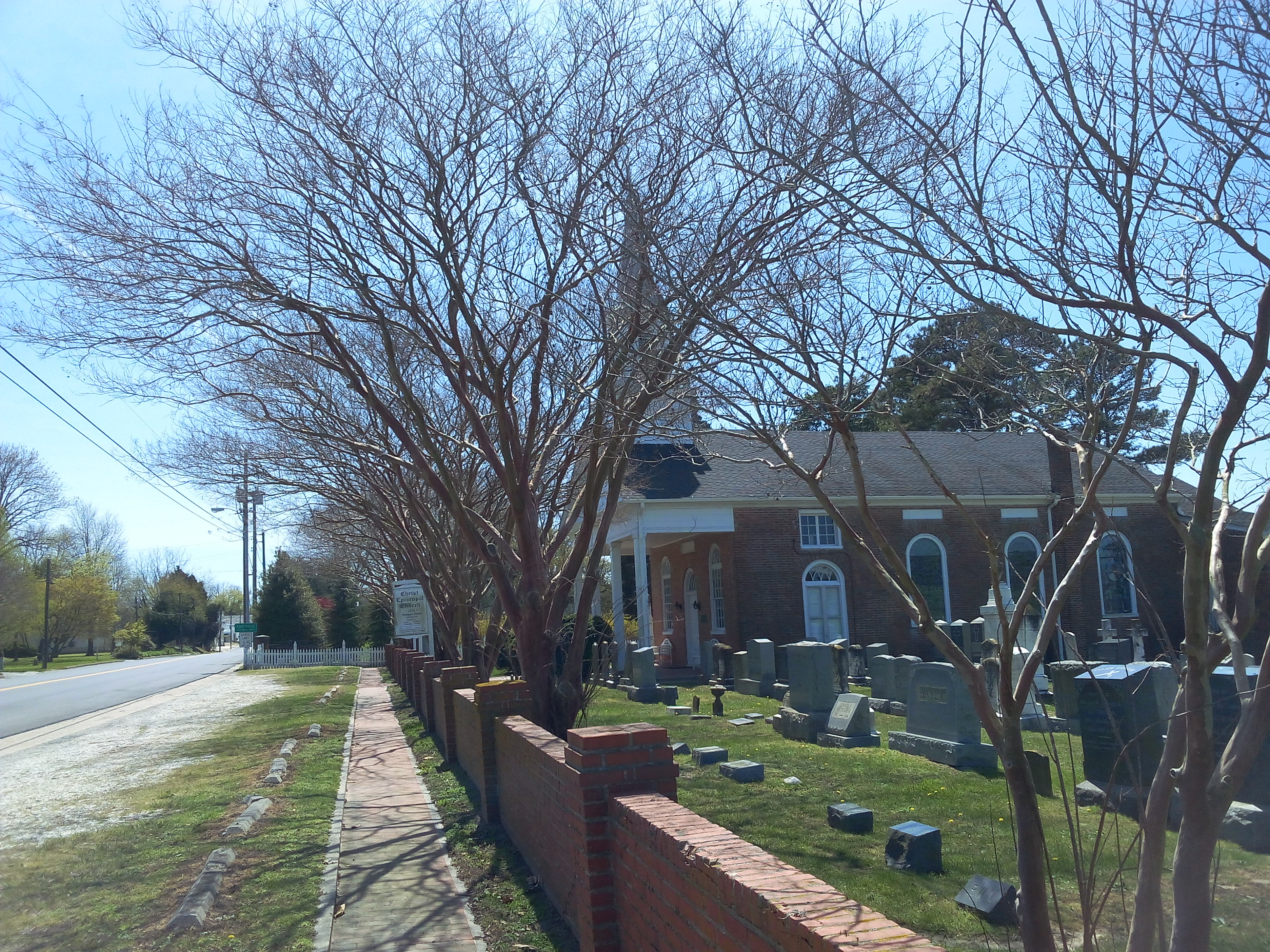 Church and cemetery on road from Northampton courthouse